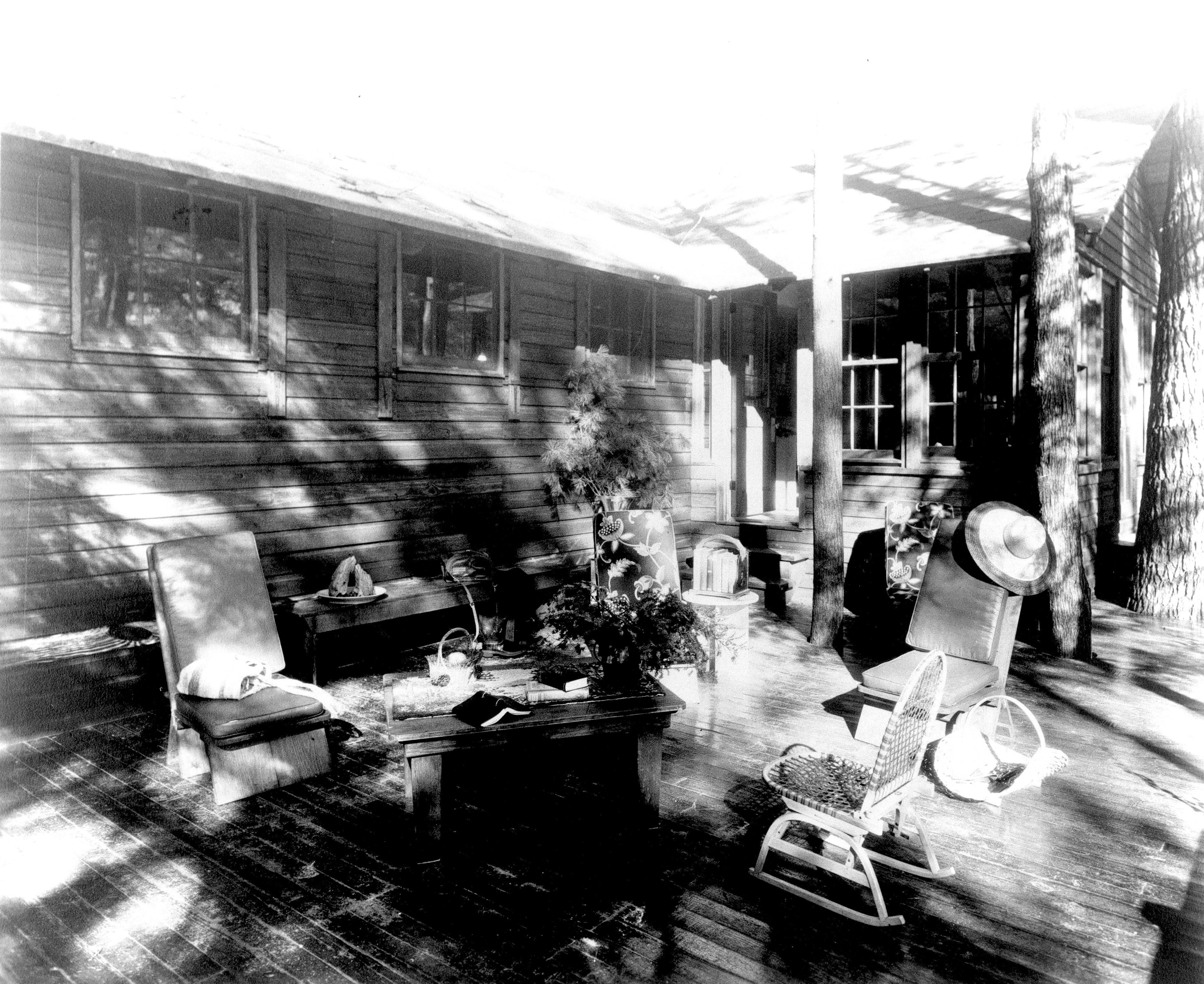 The porch of the "Brown House" President's Cabin